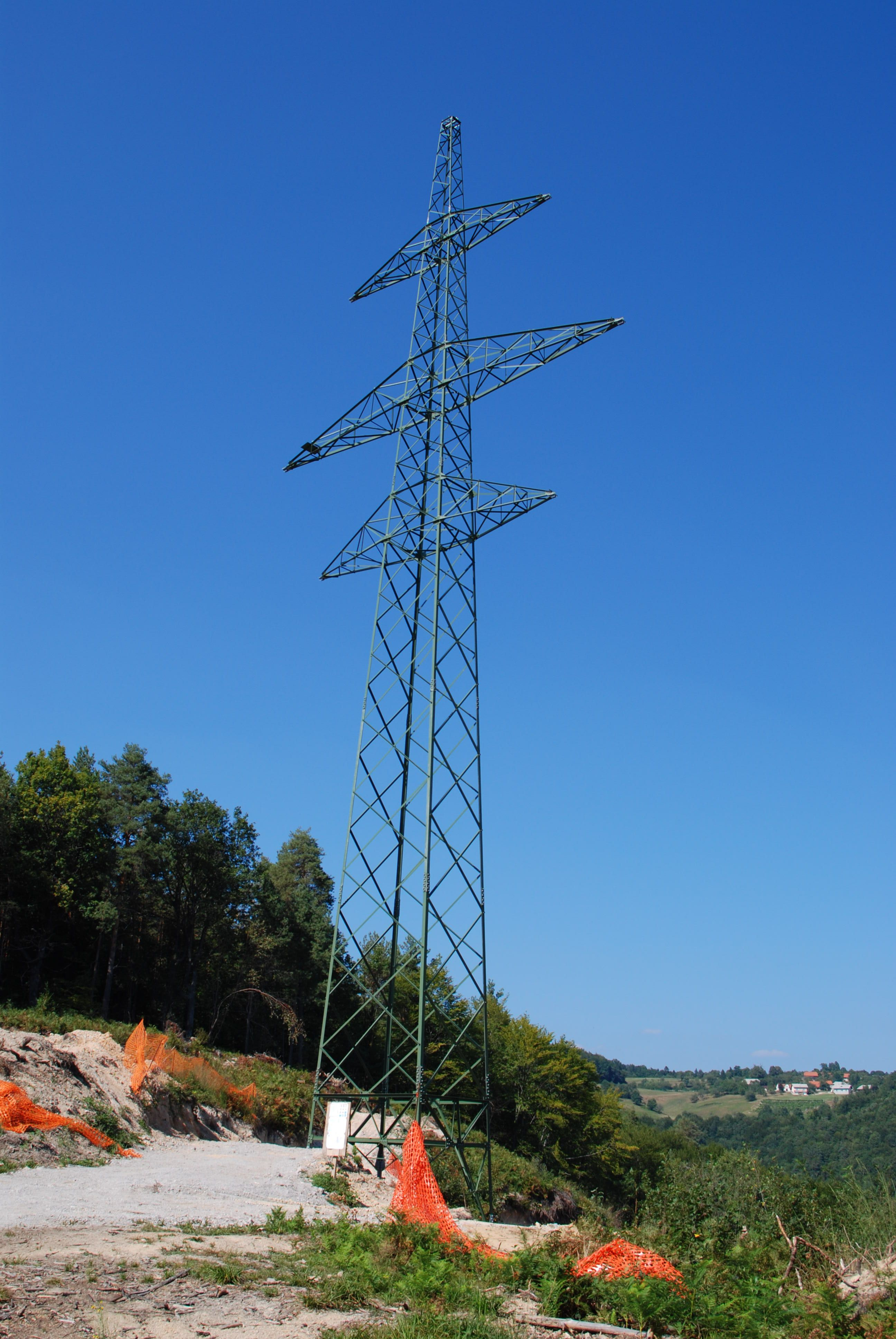 A pylon of the Krško-Beričevo Power Line in construction (2x400 kV). Photo taken in the vicinity of Brinje, Municipality of Litija, Slovenia.